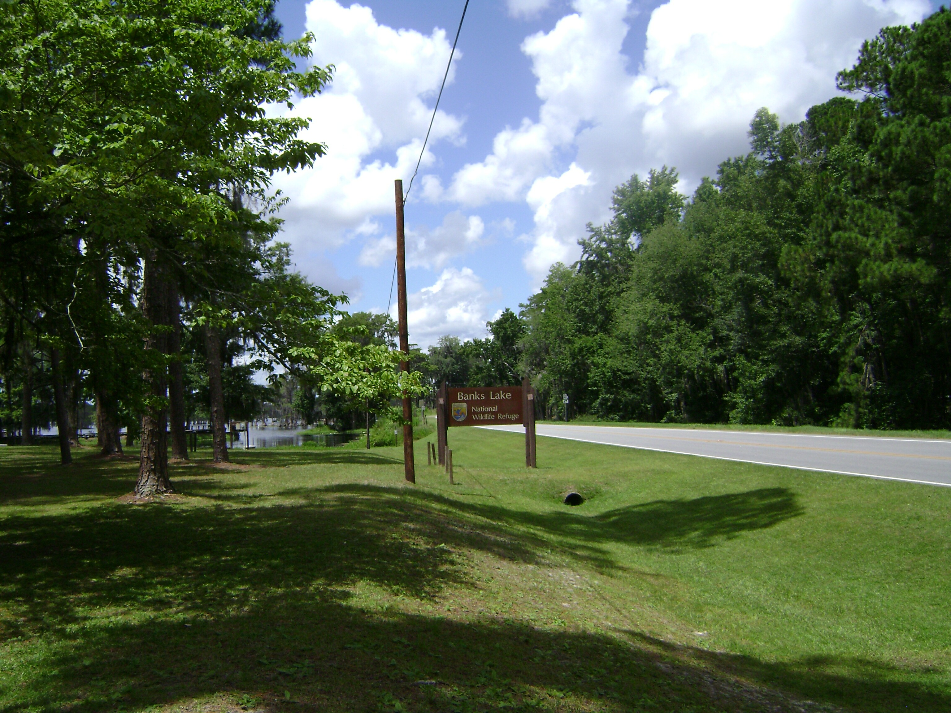 Banks Lake National Wildlife Refuge Sign in Lanier County, Georgia